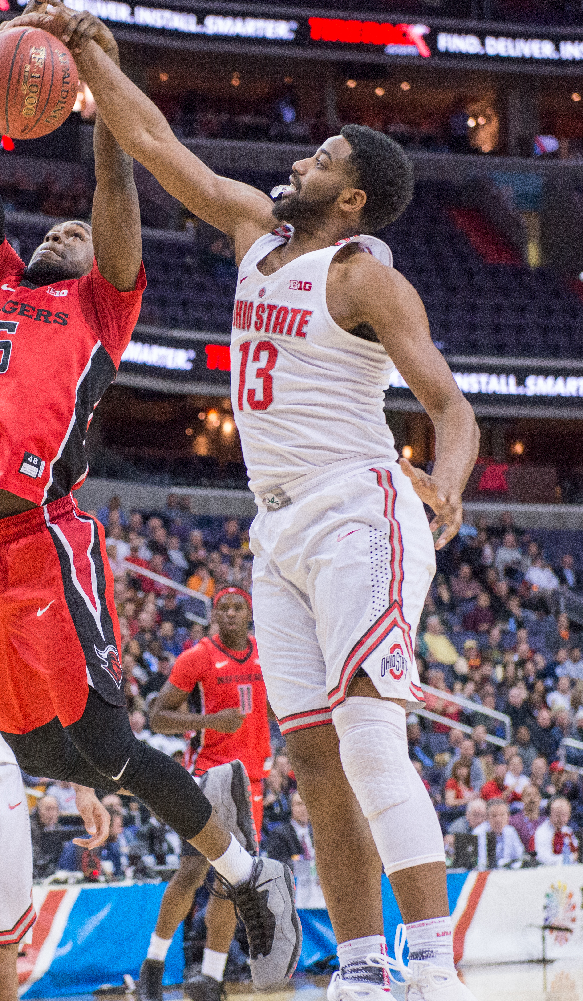 Ohio State vs. Rutgers